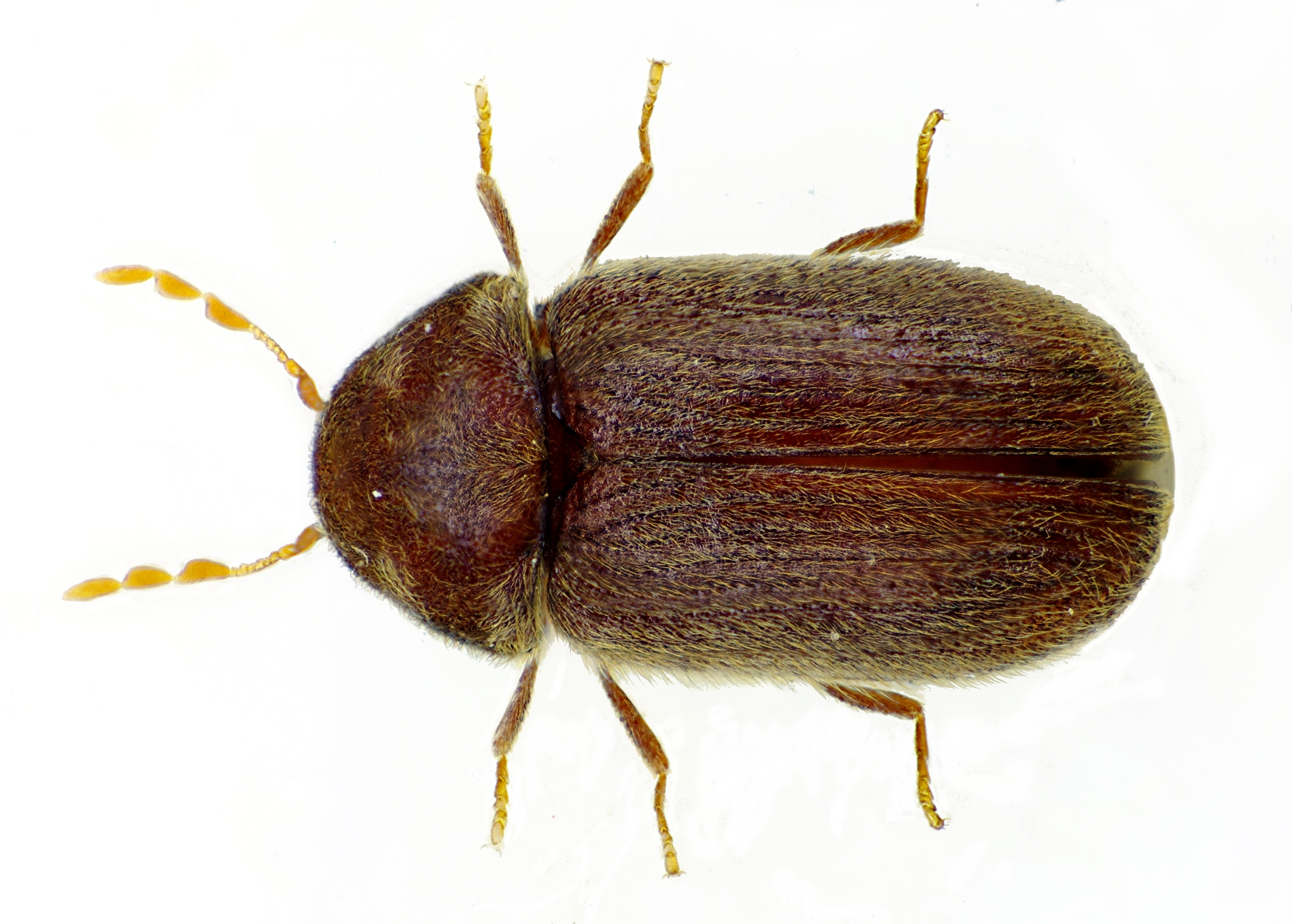 Stegobium paniceum